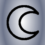 Astrological symbol of moon. Own work